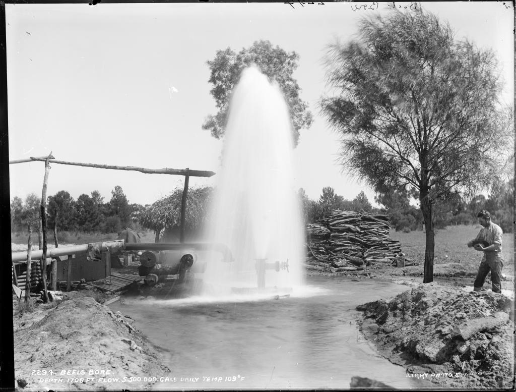 Format: Glass plate negative. Repository: Tyrrell Photographic Collection, Powerhouse Museum Part Of: Powerhouse Museum Collection General information about the Powerhouse Museum Collection is available at Persistent URL: Acquisition credit line: Gift of Australian Consolidated Press under the Taxation Incentives for the Arts Scheme, 1985